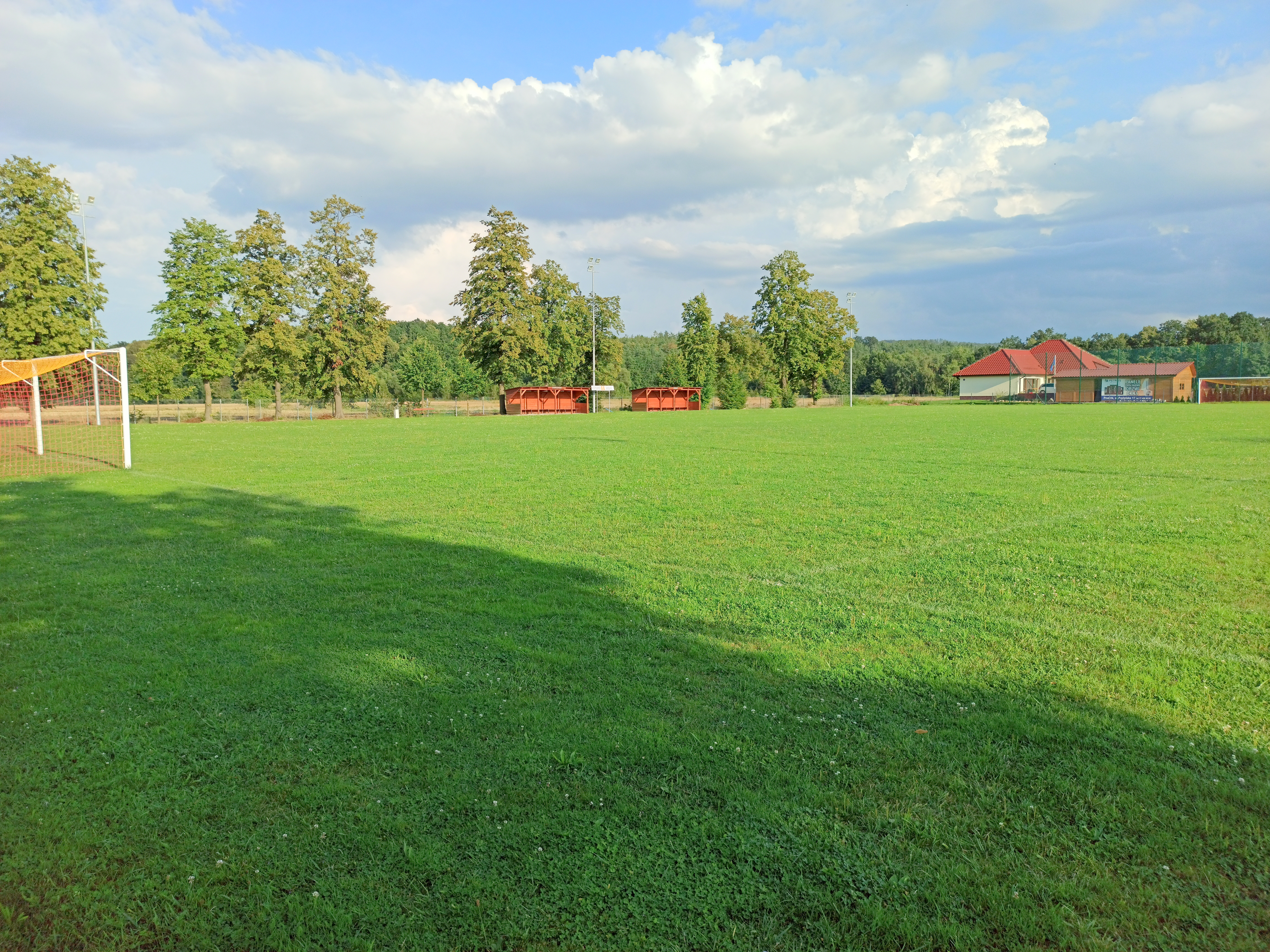 Moszczanka, Opole Voivodeship football pitch, Poland.